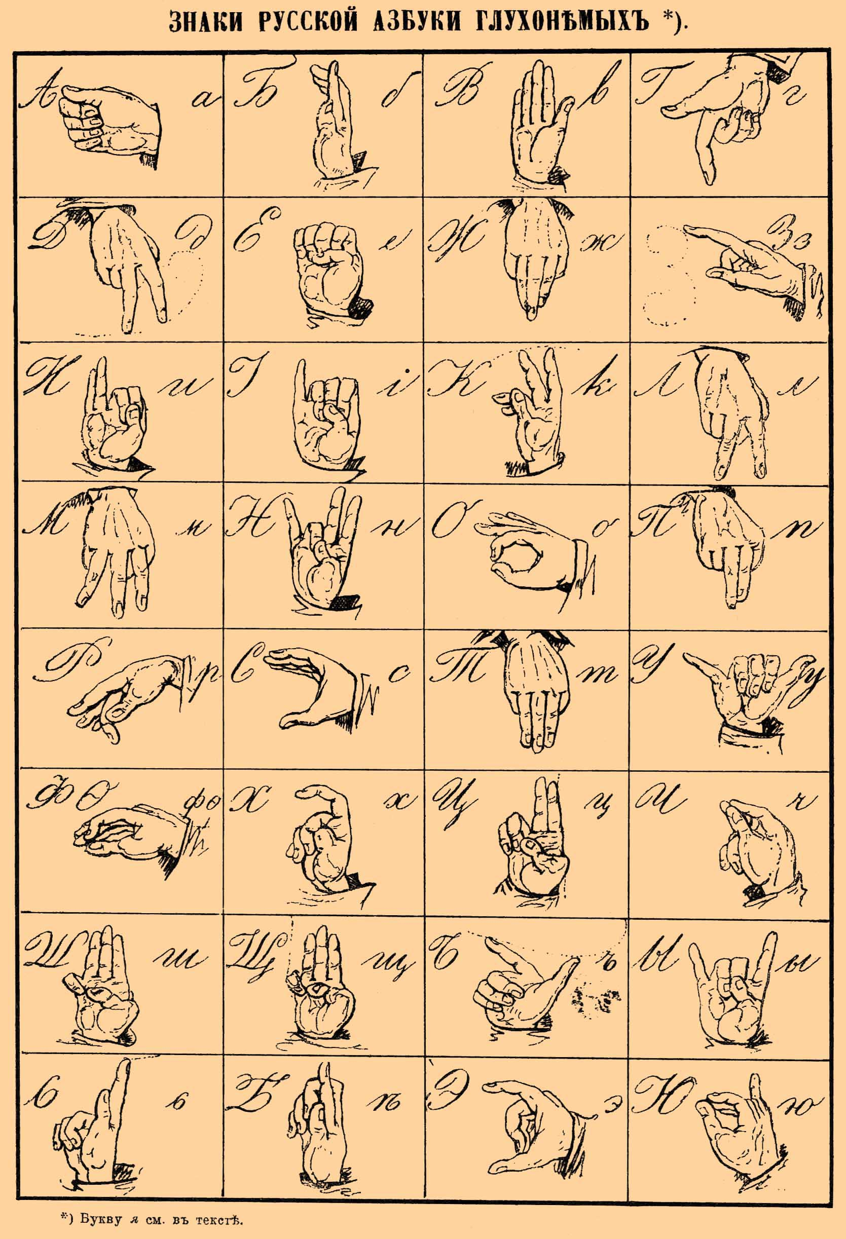 Illustration from Brockhaus and Efron Encyclopedic Dictionary (1890—1907)